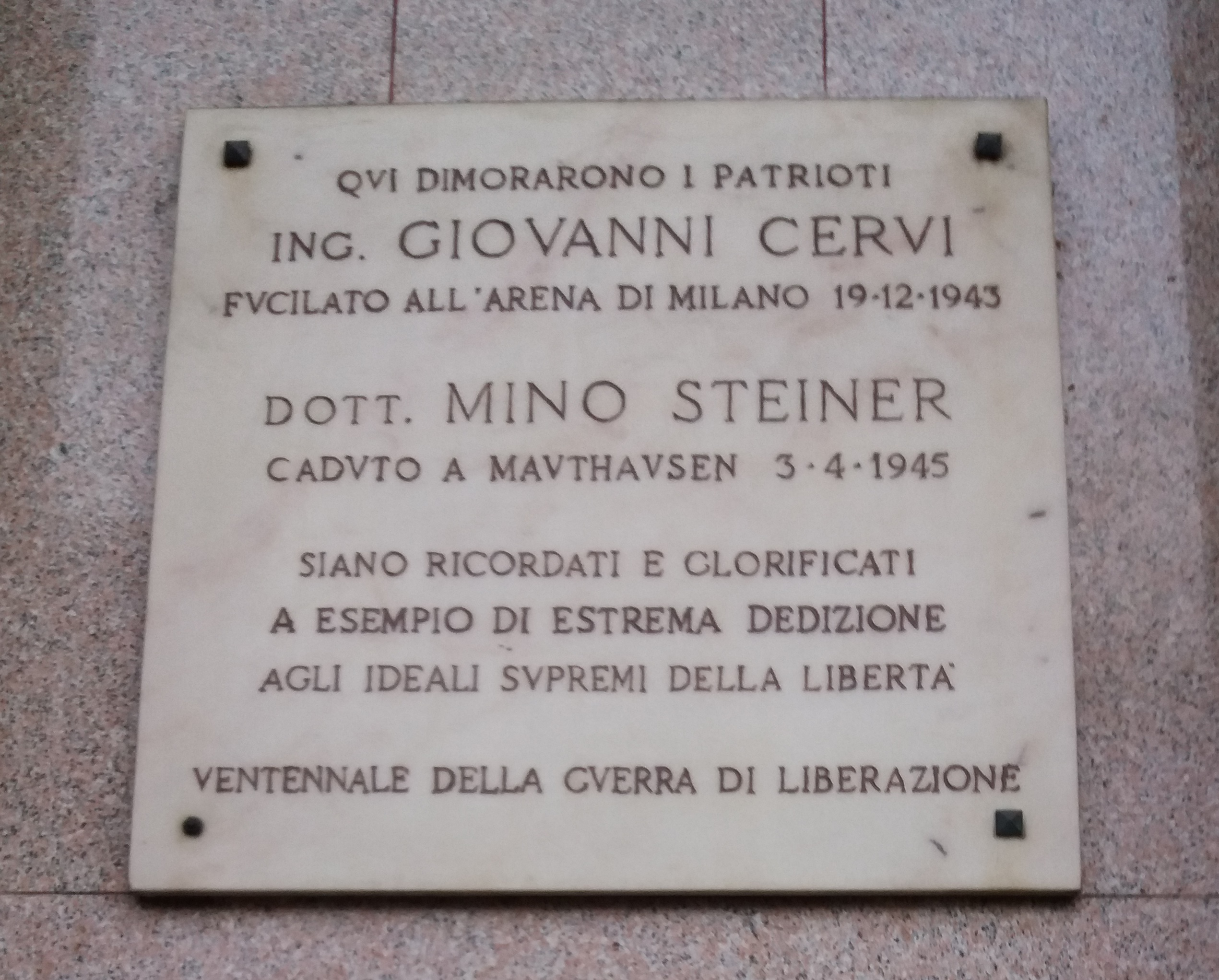 Plaque remembering patriots Giovanni Cervi and Mino Steiner in viale Bianca Maria 35, Milan